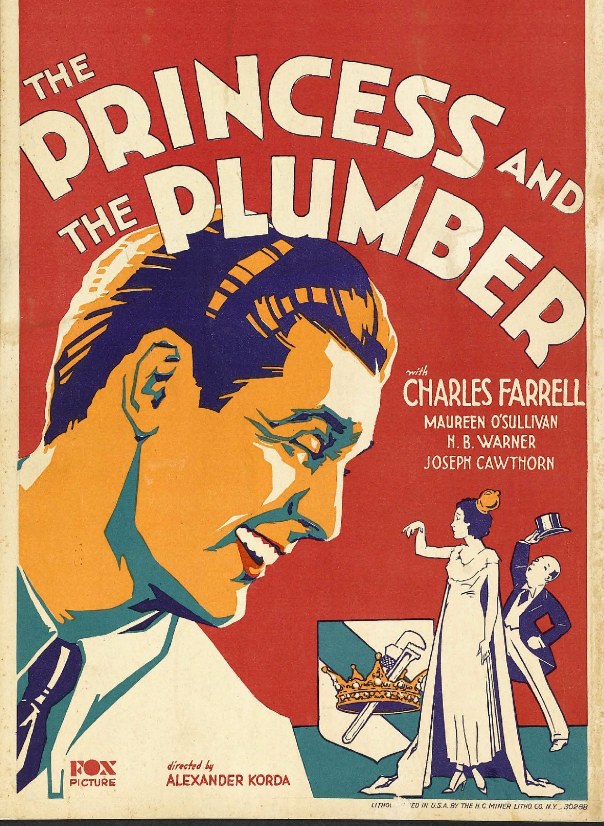 Window poster for the American film The Princess and the Plumber (1930). There are no copyright marks. At bottom right is Lithographed in USA by the H. C. Miner Litho. Co. NY. 30288.